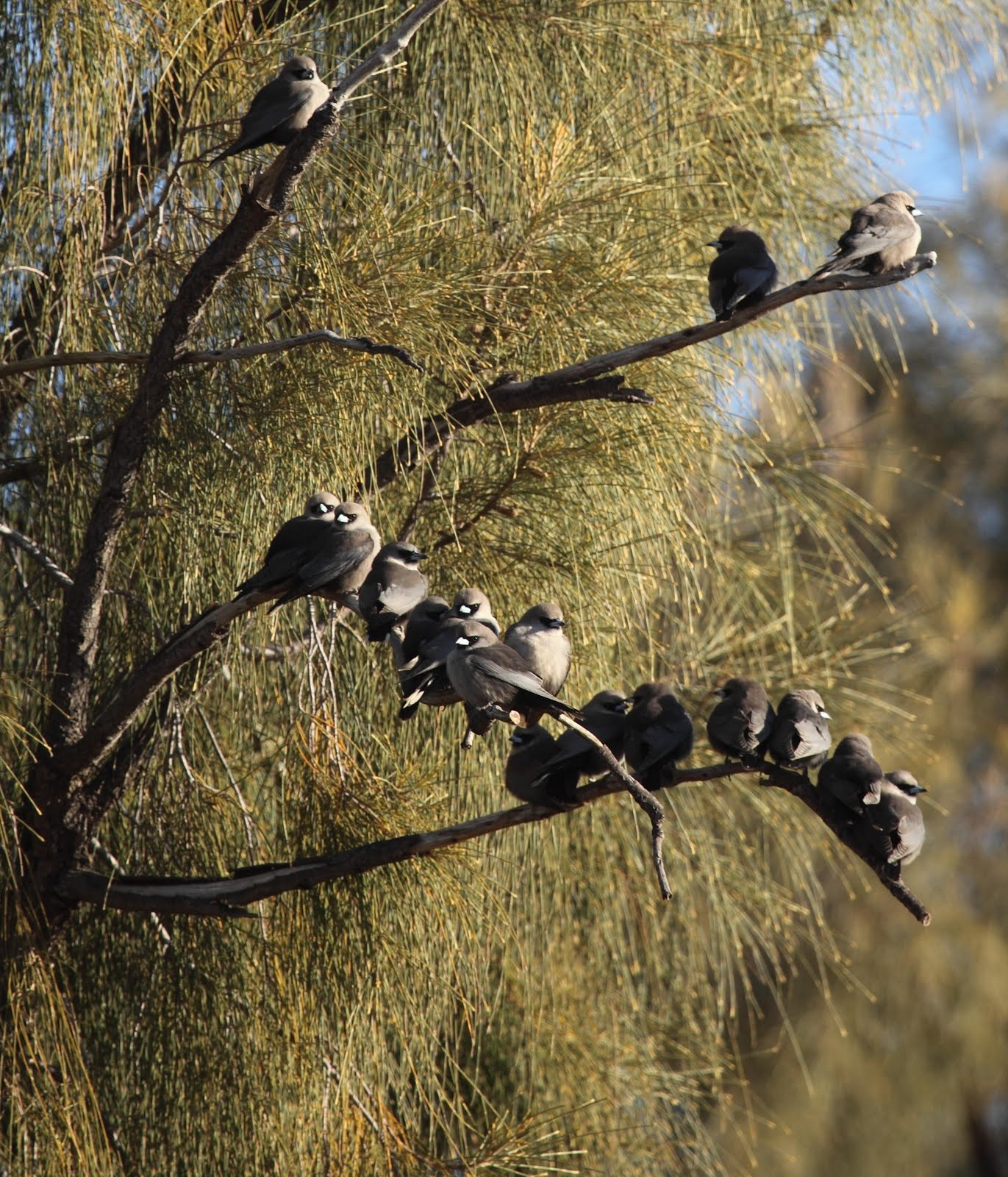 Black-faced Woodswallow (Artamus cinereus), Northern Territory, Australia